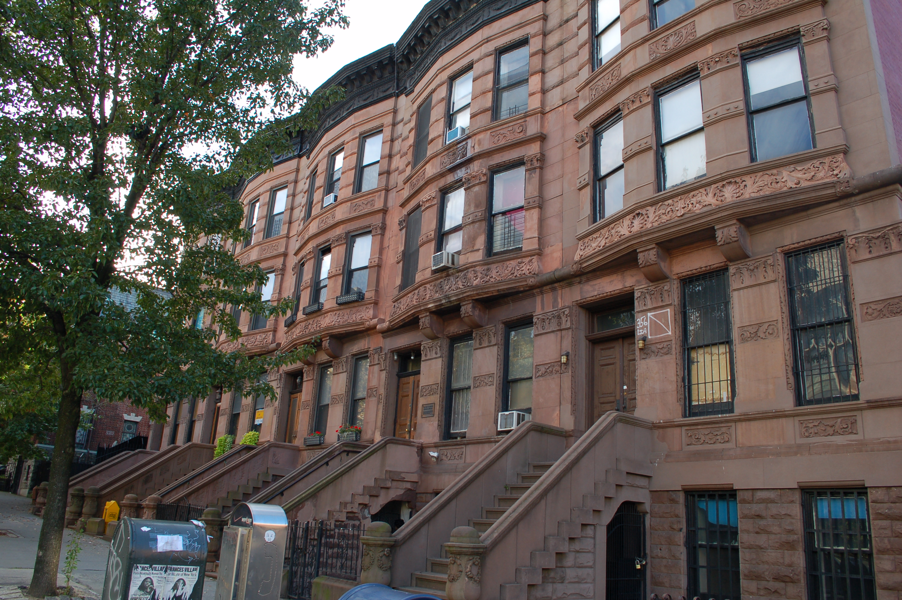 Hamilton Heights Historic District in New York City